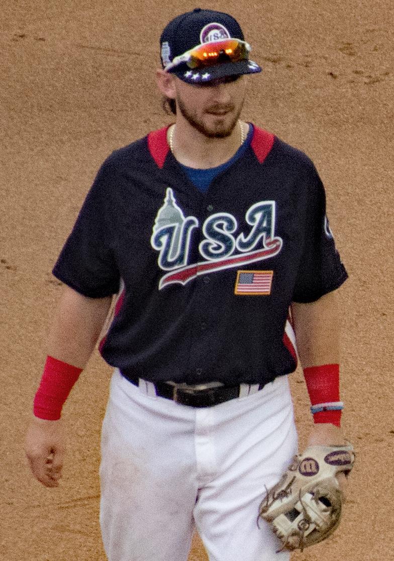 Seuly Matias, Brendan Rodgers and Carter Kieboom (left to right) on the field during the 2018 All-Star Futures Game